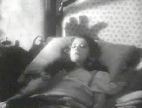 Cropped screenshot from the trailer for the film Murders in the Rue Morgue.